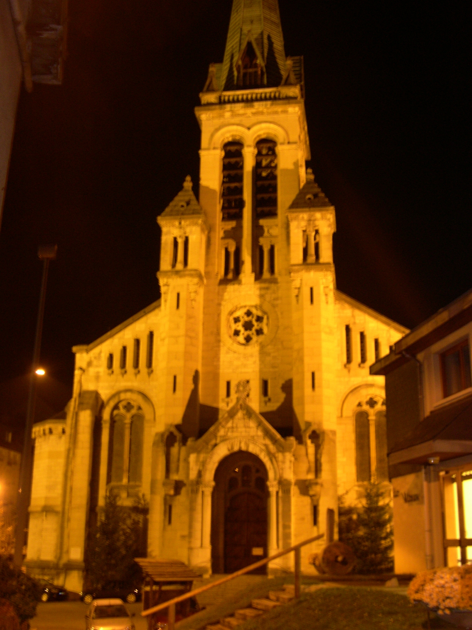 Church of Aix-les-Bains, France.